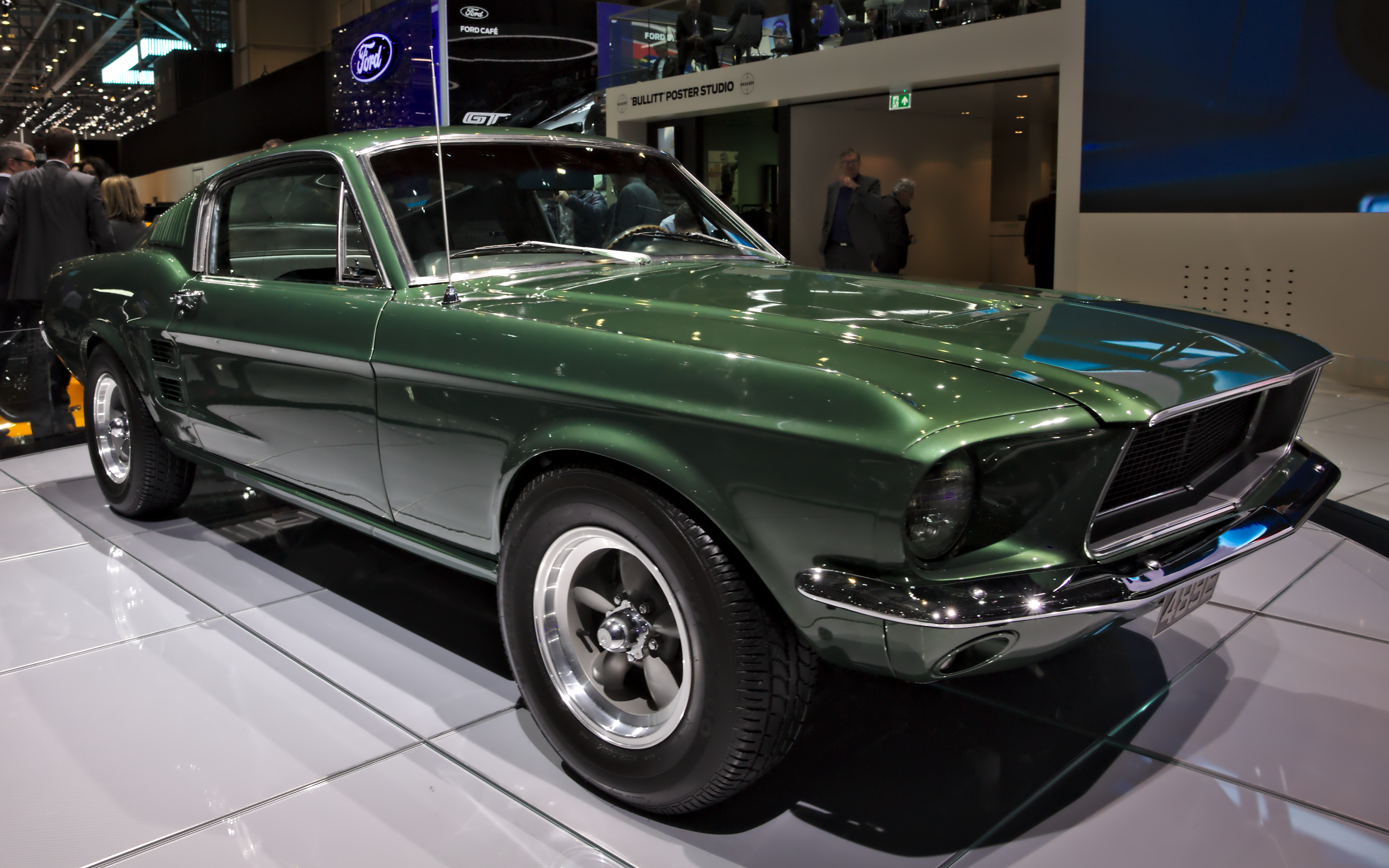 Ford Mustang Bullit '68 at Geneva Motorshow 2018